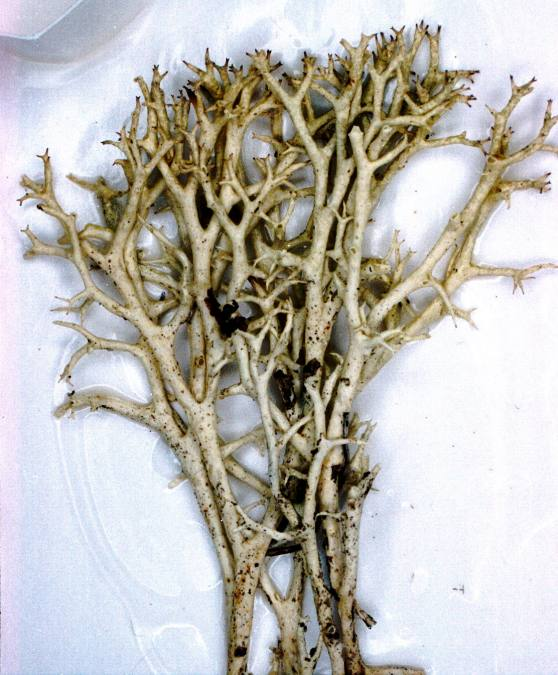 Cladonia uncialis (L.) F.H. Wigg., 1780 Photograph of a herbarium specimen. This specimen of Cladonia uncialis was growing on soil along the Blue Trail at the Humboldt Field Research Institute on Eagle Hill, in Steuben, Maine, USA (Lat. 44o27.585' N, Long. 67o56.016' W). Collected by E.C. Uebel, and identified by Dr. David H.S. Richardson (No. U-208, 11 Jun 2001).